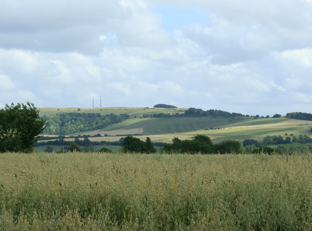 South east from A3102 at Pillars Lodge Nearly a mile from the centre of Calne. Looking over a field of oats to Furze Knoll SU0366 on the horizon.